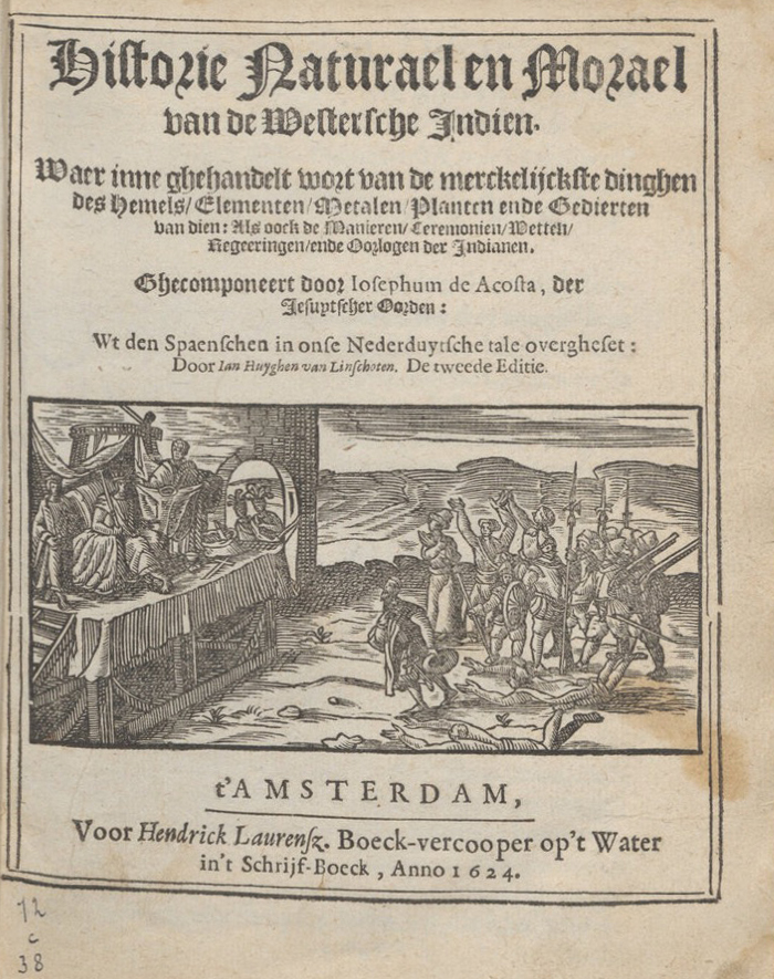 Illustration from Dutch second edition of José de Acosta's Historia natural y moral de las Indias, which was originally published in Spanish in Salamanca, 1590.